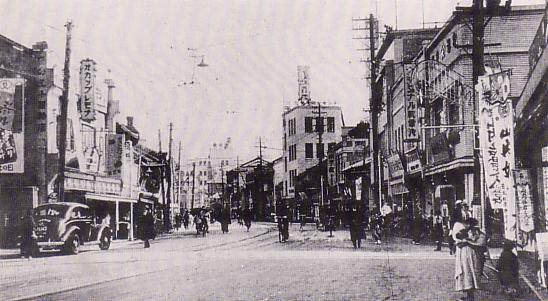 Benten-Cho in Fuzan(Busan)